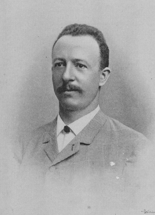 Photograph of Ignát Herrmann, Czech writer.